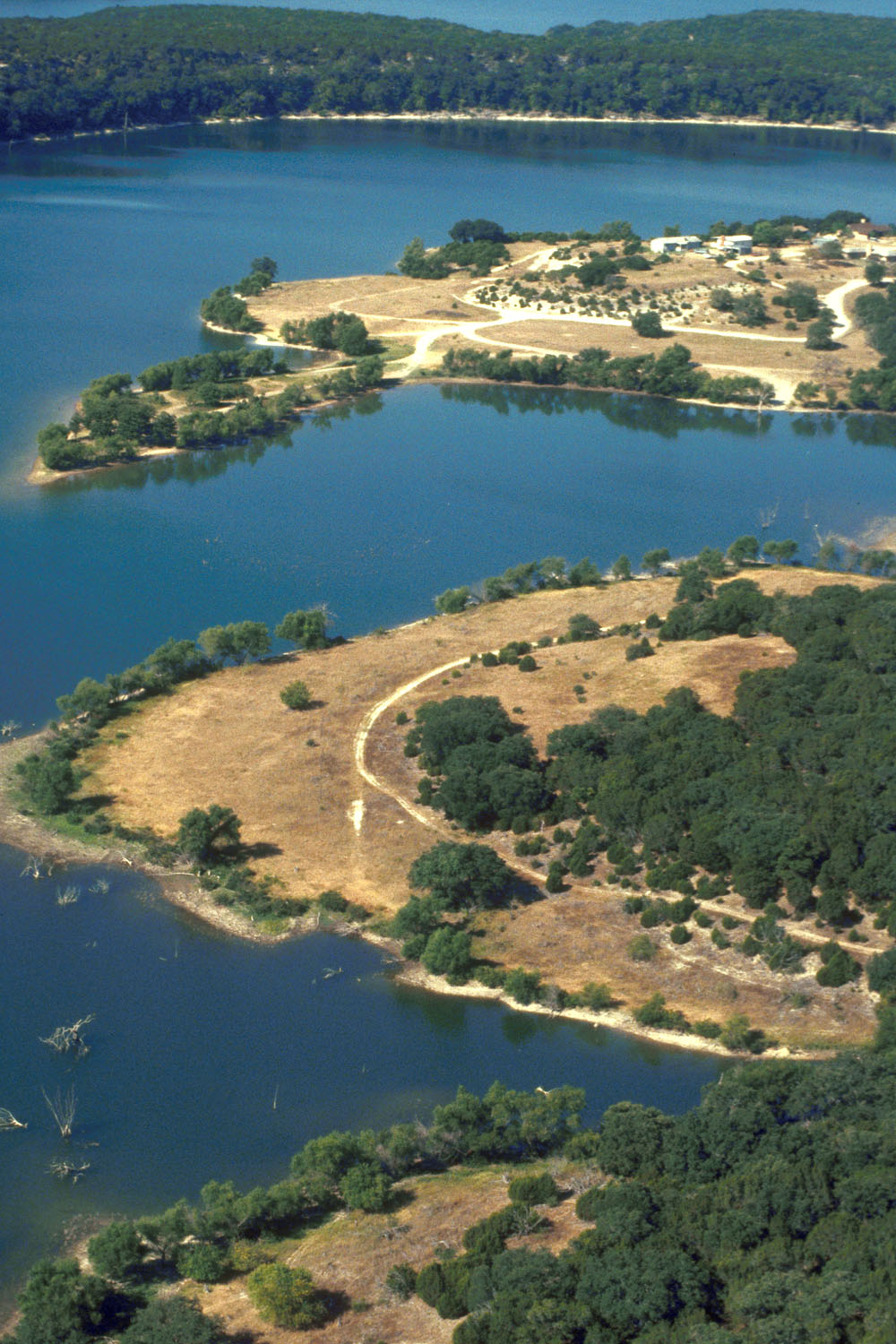 Aerial view of a small part of Belton Lake on the Leon River in Bell County, Texas, USA. The lake is impounded by Belton Dam and located near the town of Belton, Texas. The U.S. Army Corps of Engineers constructed the dam on the river in 1954 for flood control and water supply. Belton Lake is a long, narrow, winding lake with many curves and coves along the lakeshore. Coordinates: 31°7′40″N 97°30′22″W / 31.12778°N 97.50611°W